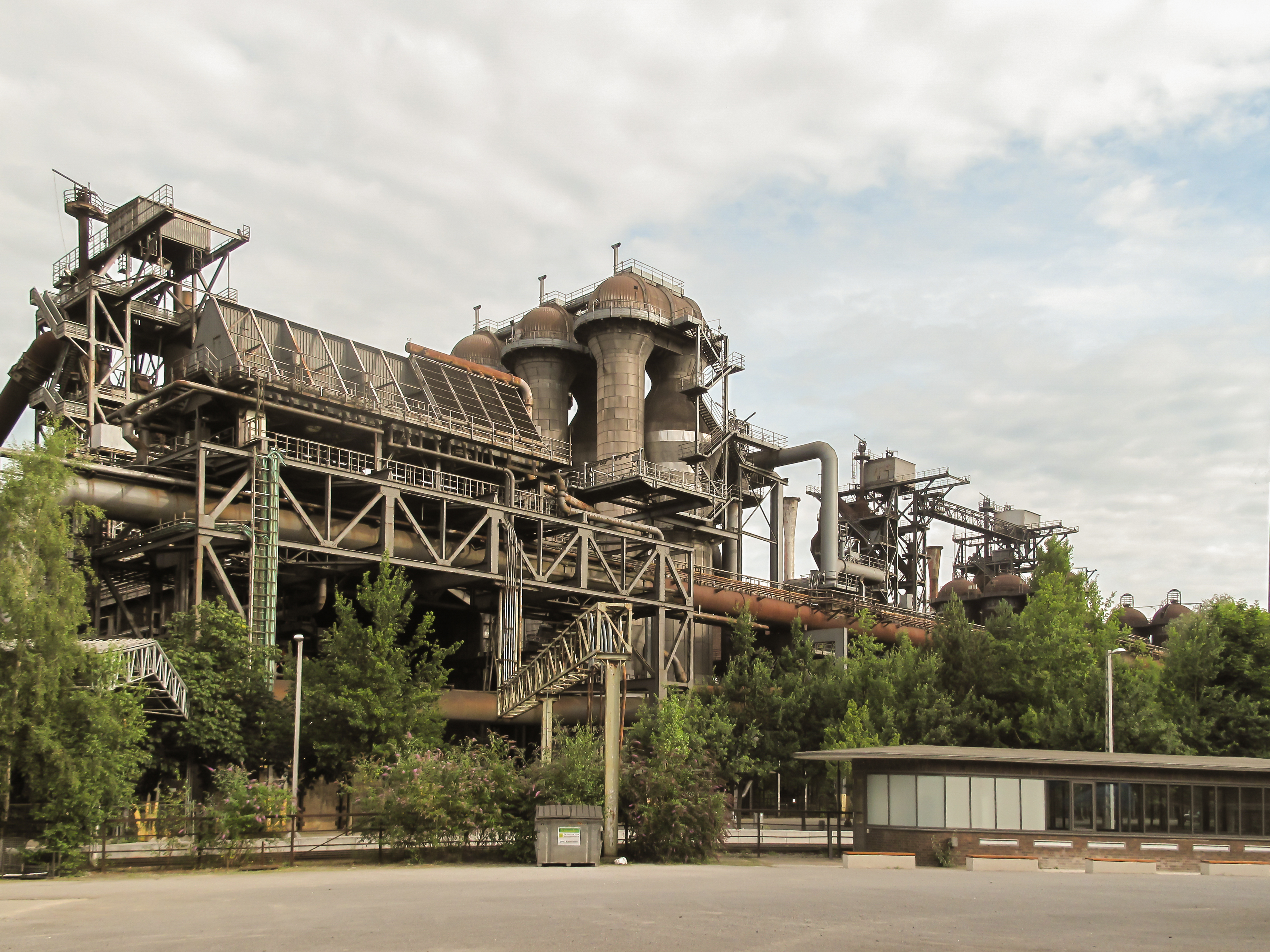 Meiderich, former industrial area: Landschaftspark